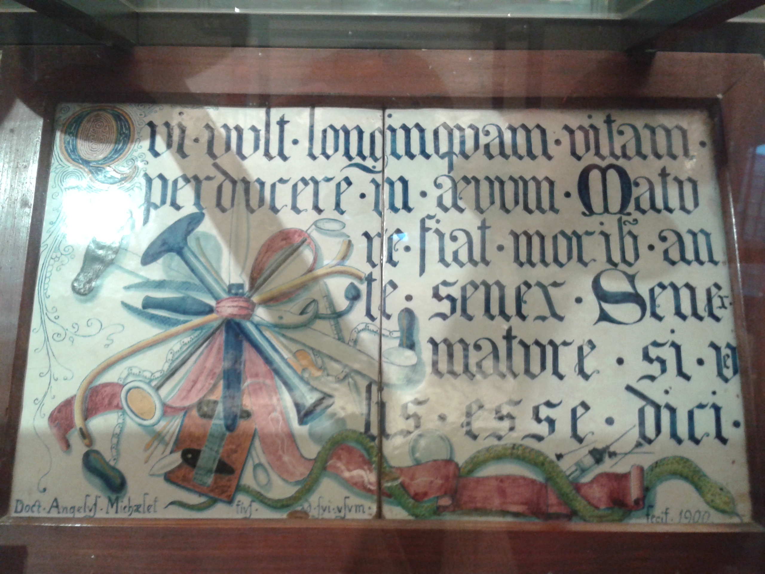 Angelo Micheletti, pannello con due mattonelle con iscrizione latina riguardante la medicina, 1900